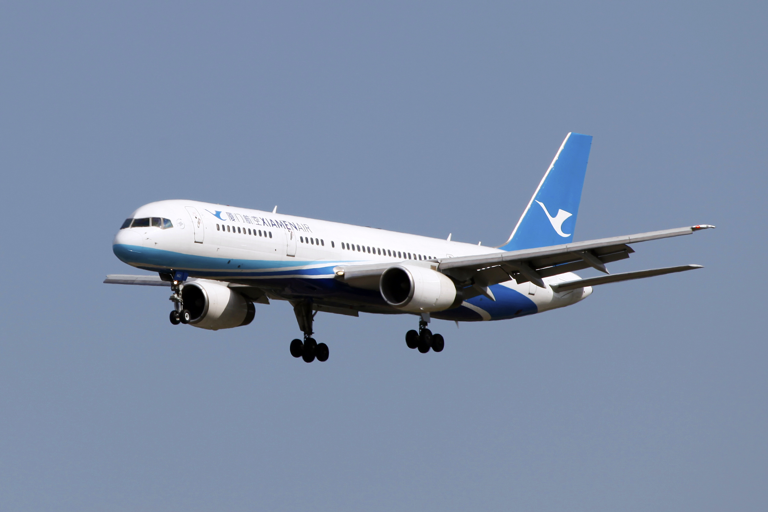 B-2862 | Xiamen Airlines | Boeing 757-25C | Beijing Capital International Airport [PEK]